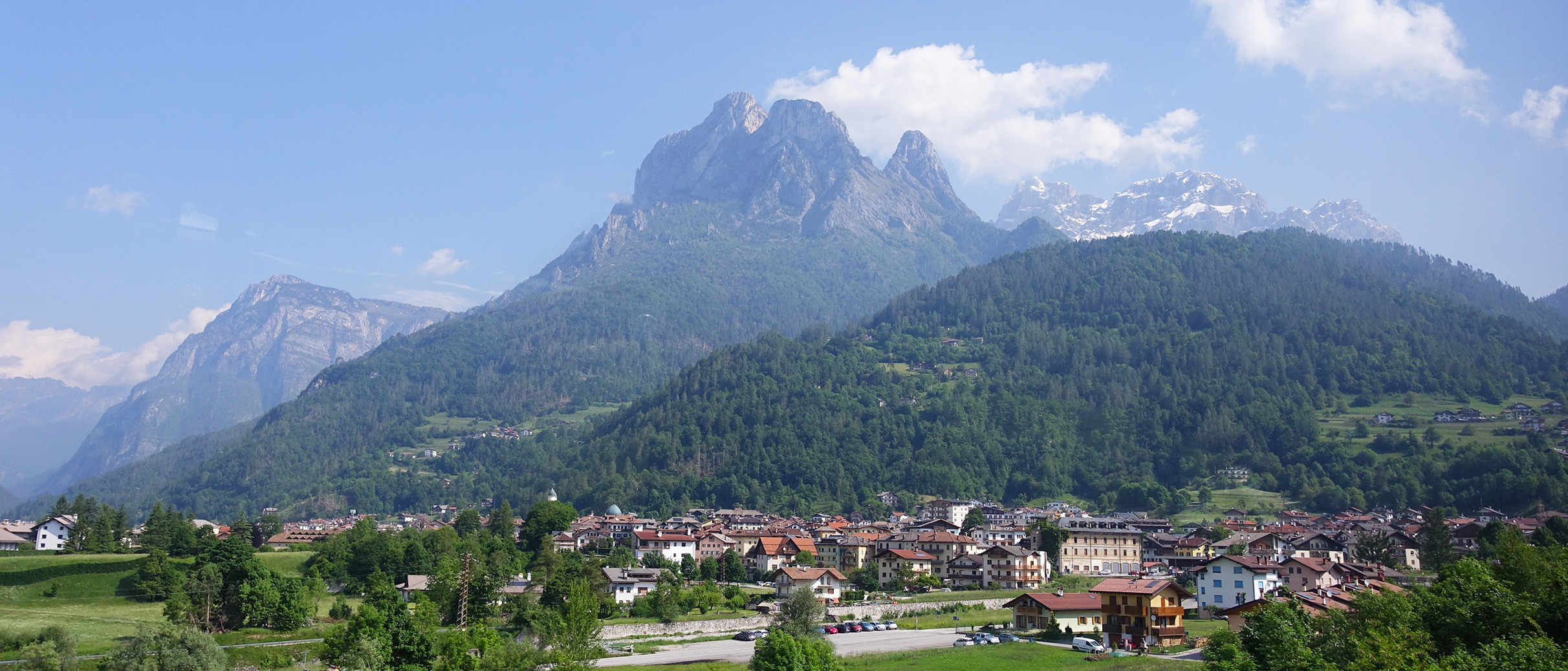 Agordo and mountains, Italy.